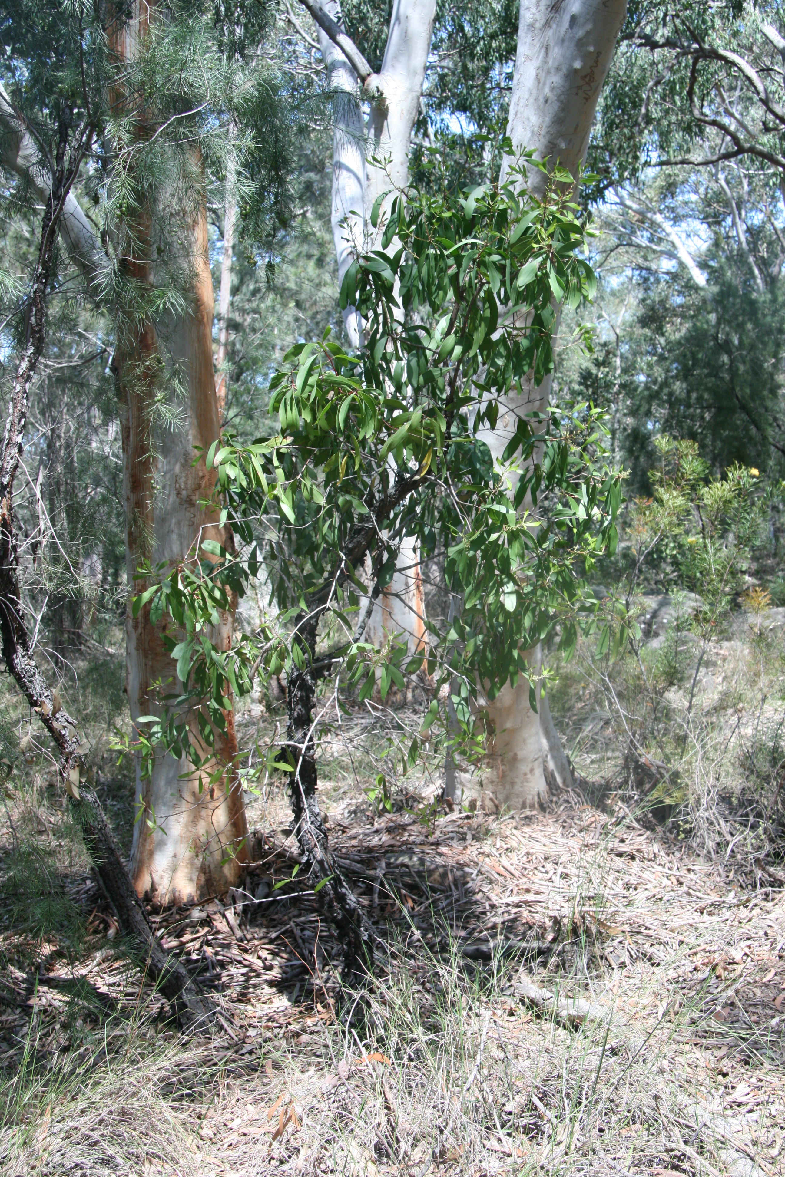 Persoonia levis, habit - Georges River NP near Transgrid Electricity substation